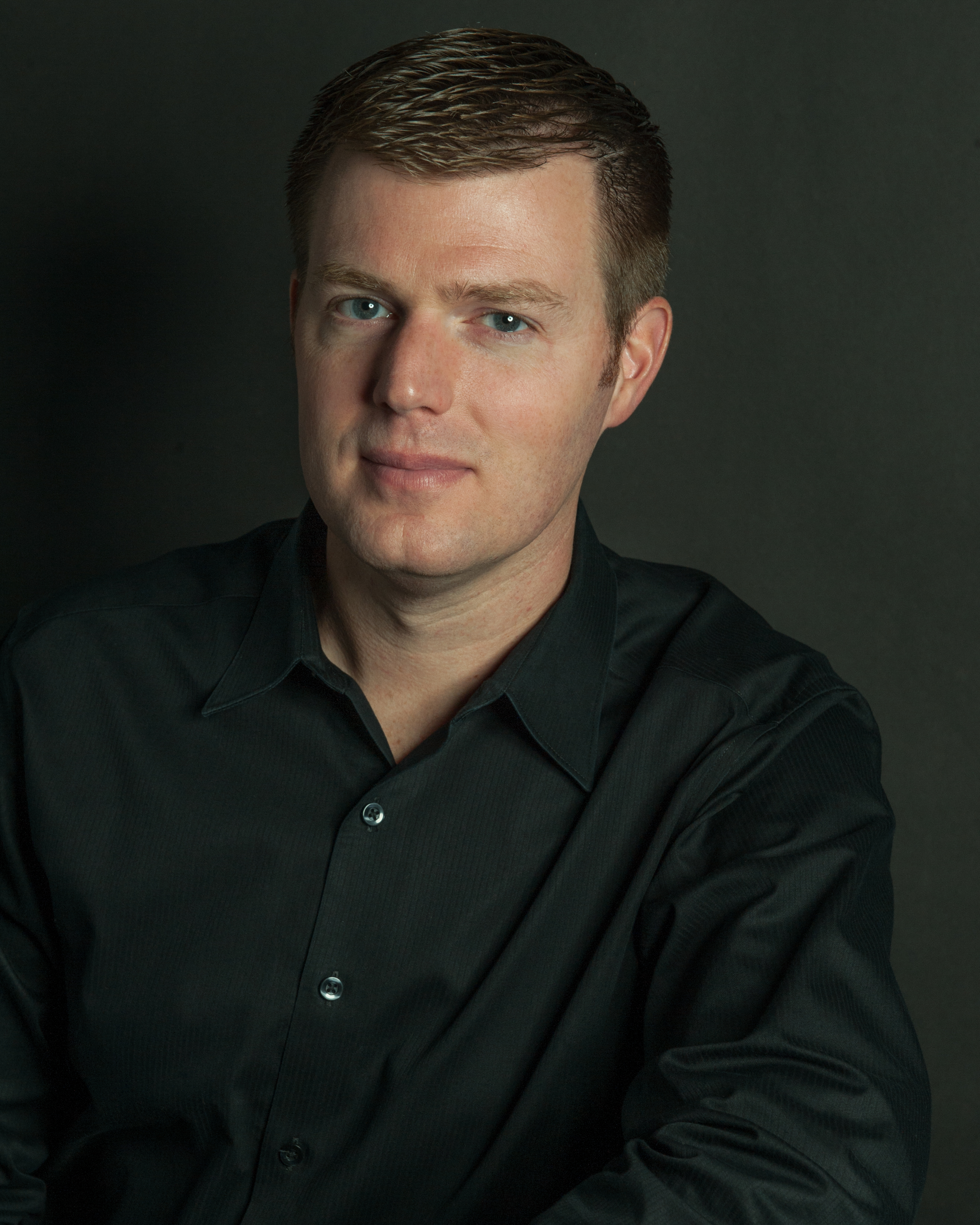 Photo of Dan Forrest, American composer, pianist, educator, and music editor